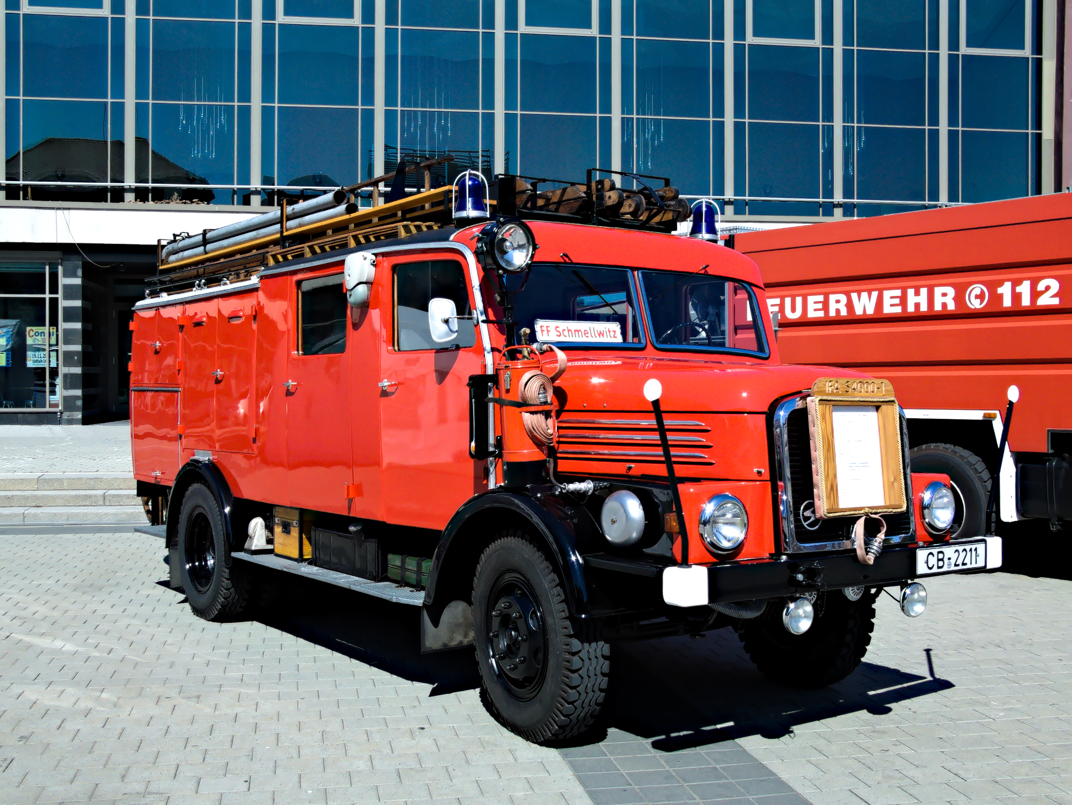 Historic IFA LF 16–TS 8 fire engine (based on the IFA S4000-1) of the voluntary fire department Schmellwitz. It was made by the VEB Kraftfahrzeugwerk „Ernst Grube“ Werdau in 1959.